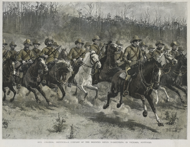 A drawing of the Victorian Mounted Rifles